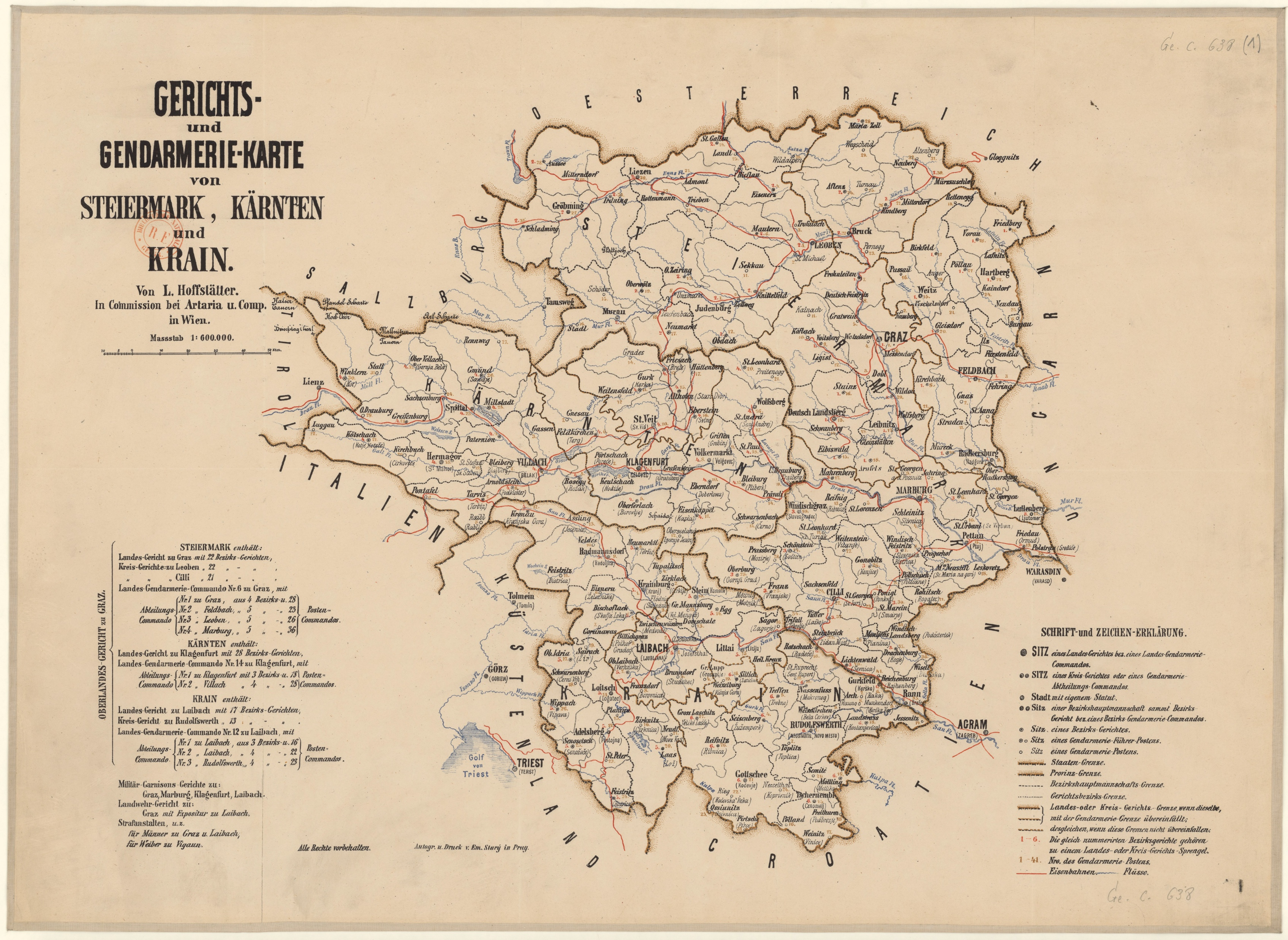 Court and police districts of Carinthia, Styria and Carniola, as of 1885 in the scale of 1:600,000